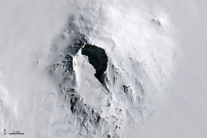 This image of Mount Sidley was acquired on November 20, 2014, by the Operational Land Imager (OLI) on Landsat 8. The volcano stands about 4,200 meters (13,800 feet) above sea level and 2,200 meters (7,200 feet) above ice level. The caldera wall, which is mostly shadowed in this image, is about 1,200 meters (3,900 feet) high. The caldera floor spans 5 kilometers (3 miles). Sidley is one of five volcanoes in the Executive Committee Range, which stretches about 80 kilometers (50 miles) from north to south.